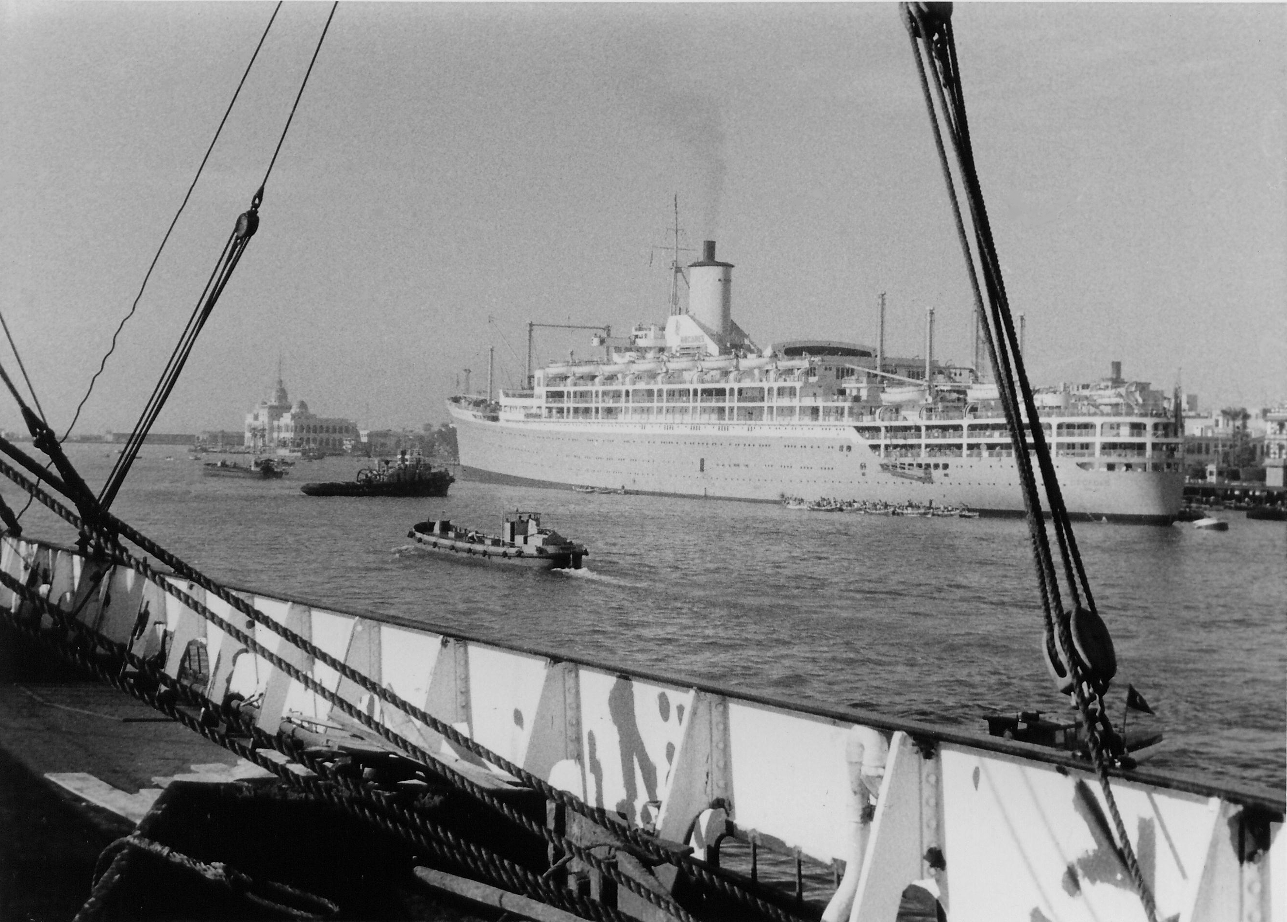 Steam turbine passenger ship Orcades of the Orient Steam Navigation Co in Port Said – southbound – in December 1957. This picture was taken from aboard MS Bernhard Howaldt when the ships were gathered for a convoy through the canal. The Suez Canal Port Authority building is in the background on the right.